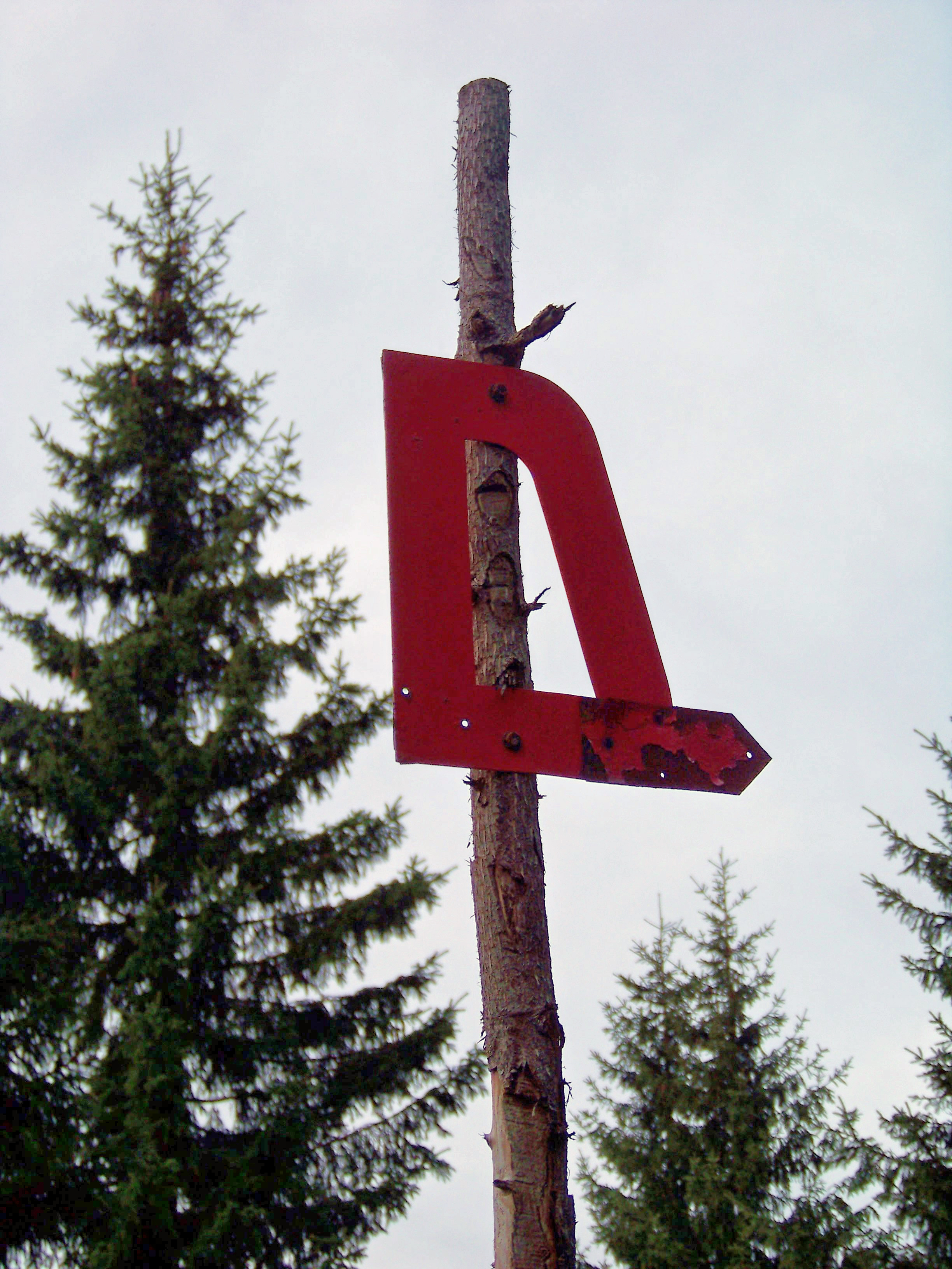 Rokytnice nad Jizerou-Rokytno, Semily District, Liberec Region, the Czech Republic. A Muttich's sign near Dvoračky.